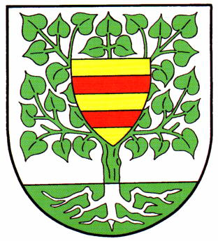 Coat of Arms of Lindern (Oldenburg)